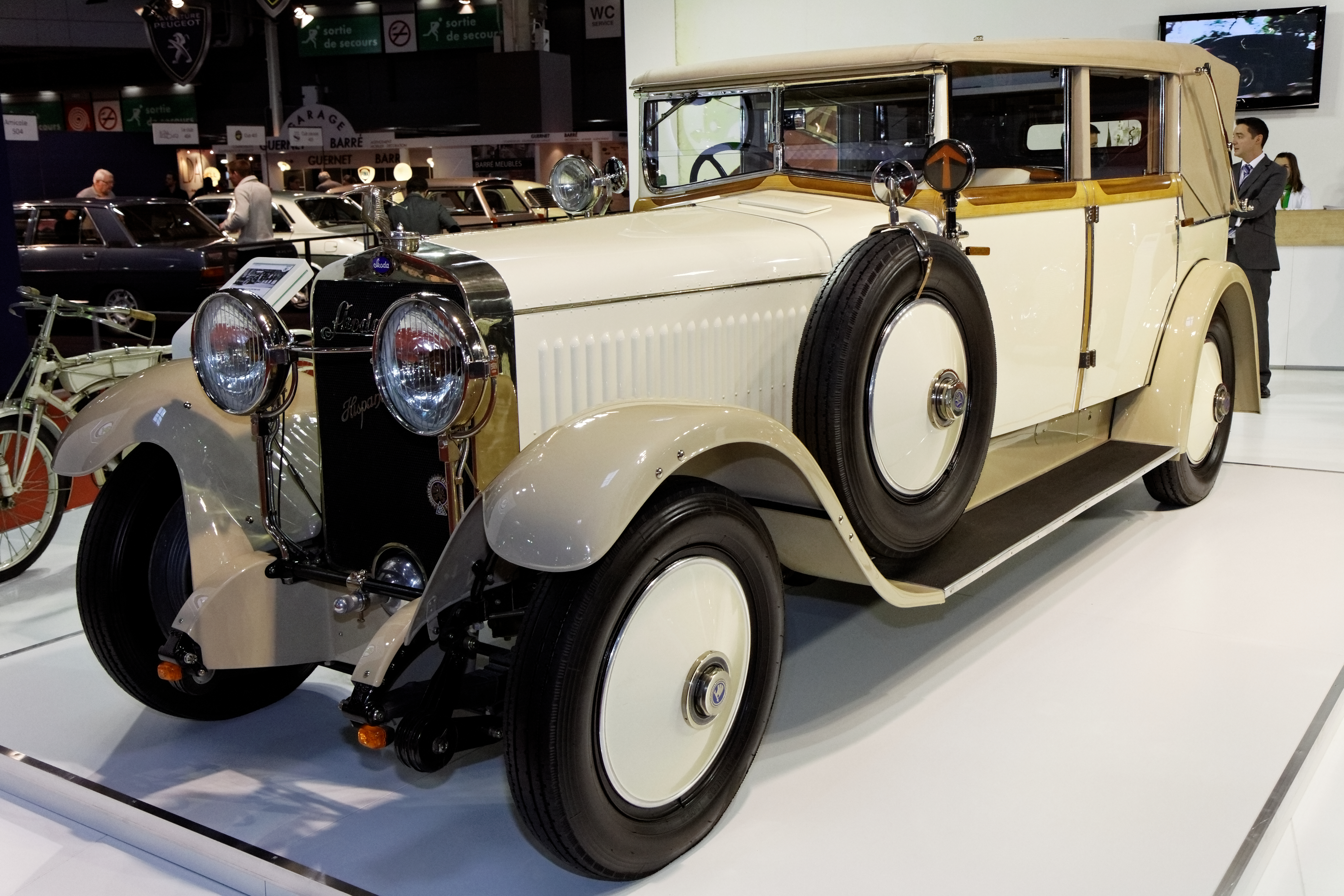 Škoda Hispano-Suiza from 1928 with cabriolet car body style from Prague coachbuilder J.O.Jech.